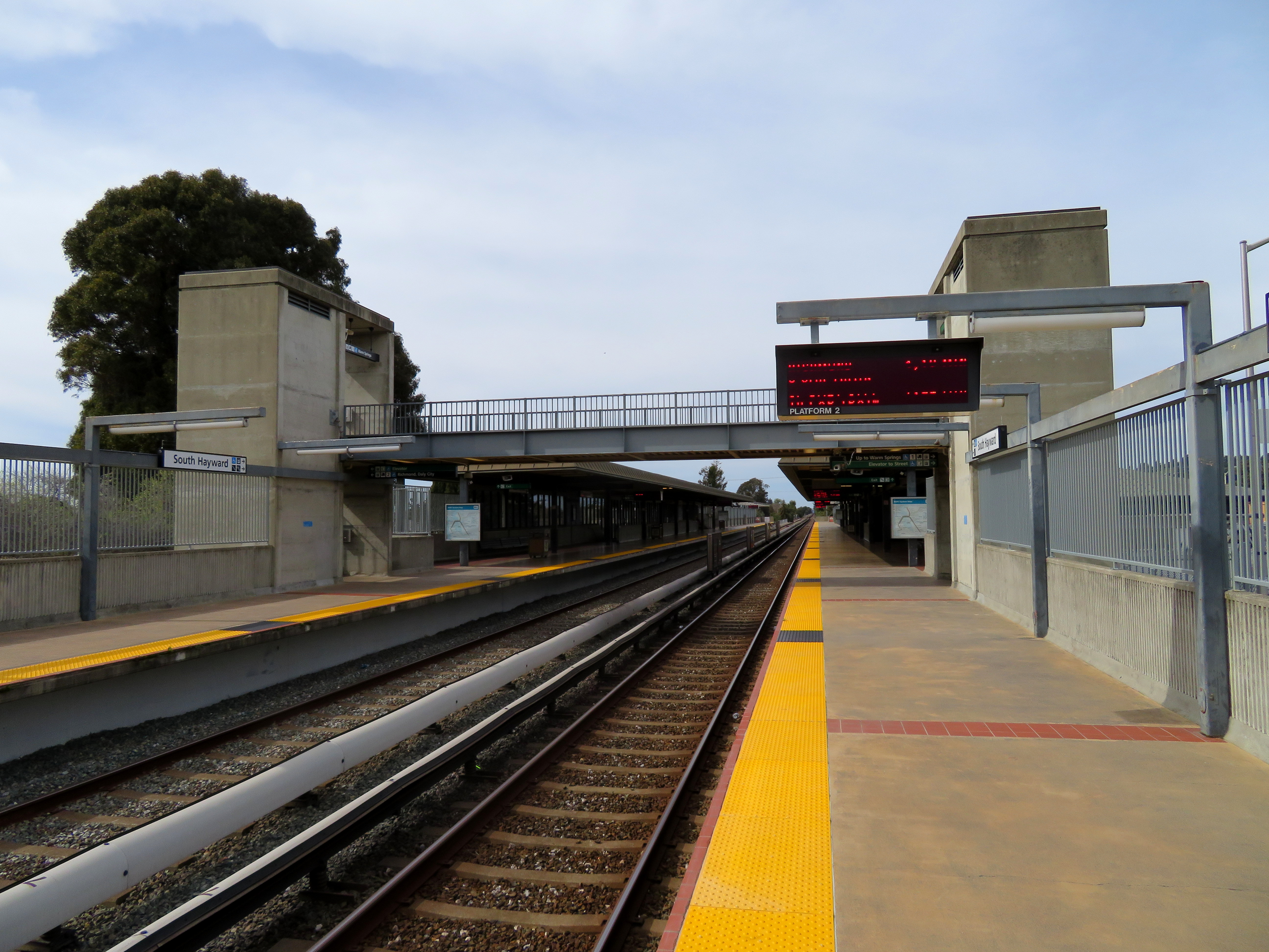 South Hayward station in March 2018